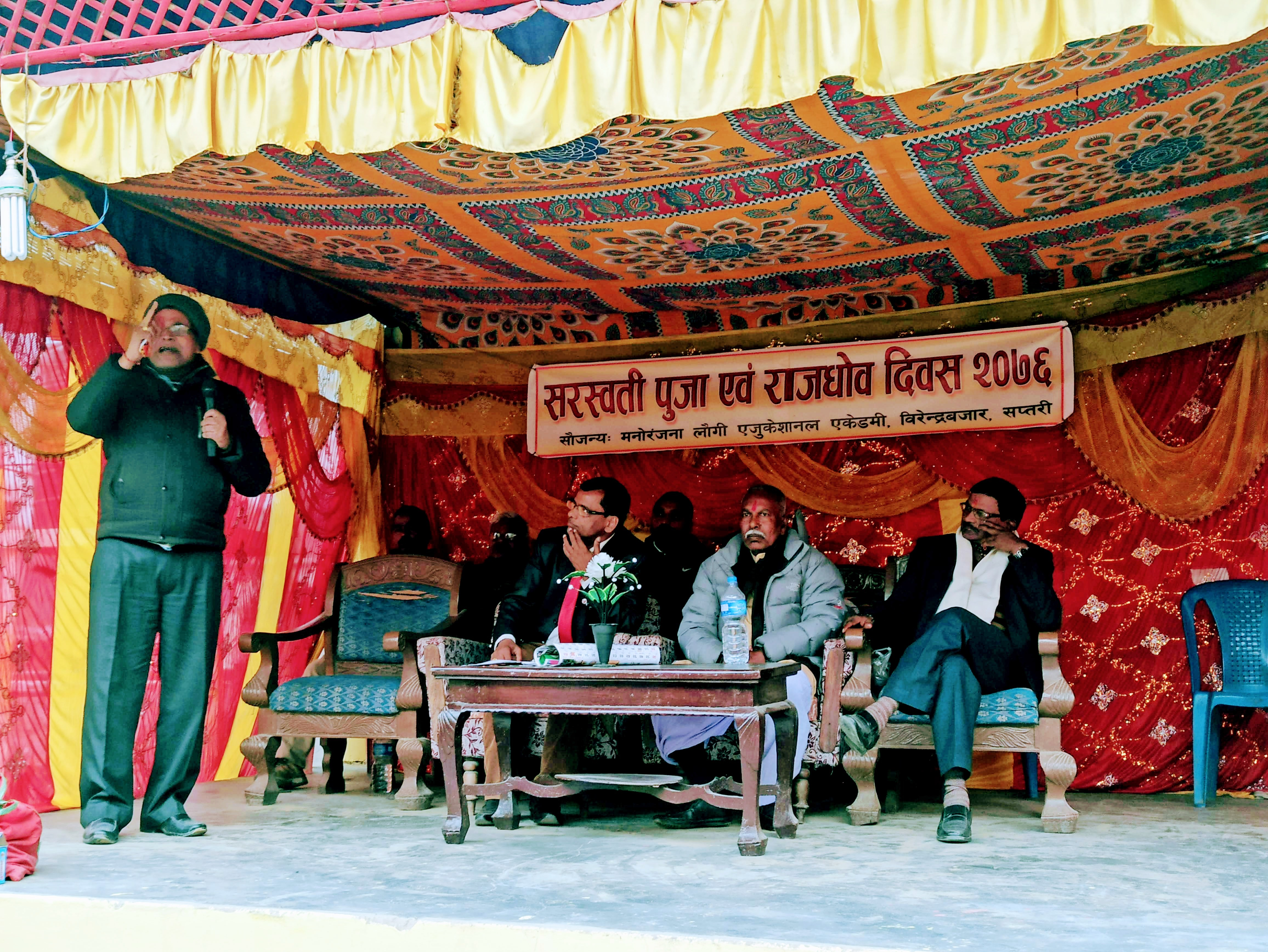 The programme was organised in Birendra Bazar, Saptari. This occurs every year on the day of Vasant Panchami.